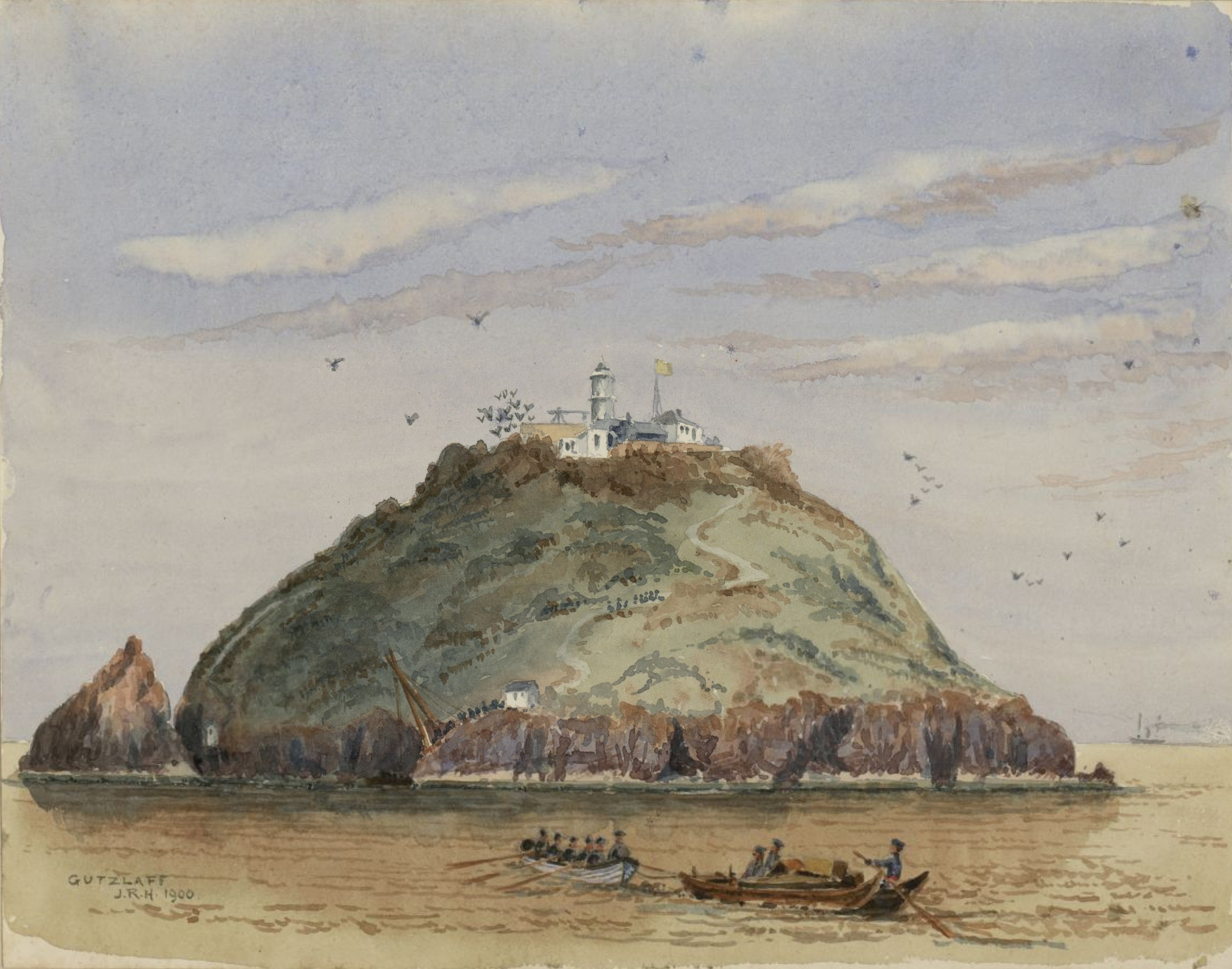 A volume of drawings of the Far East.